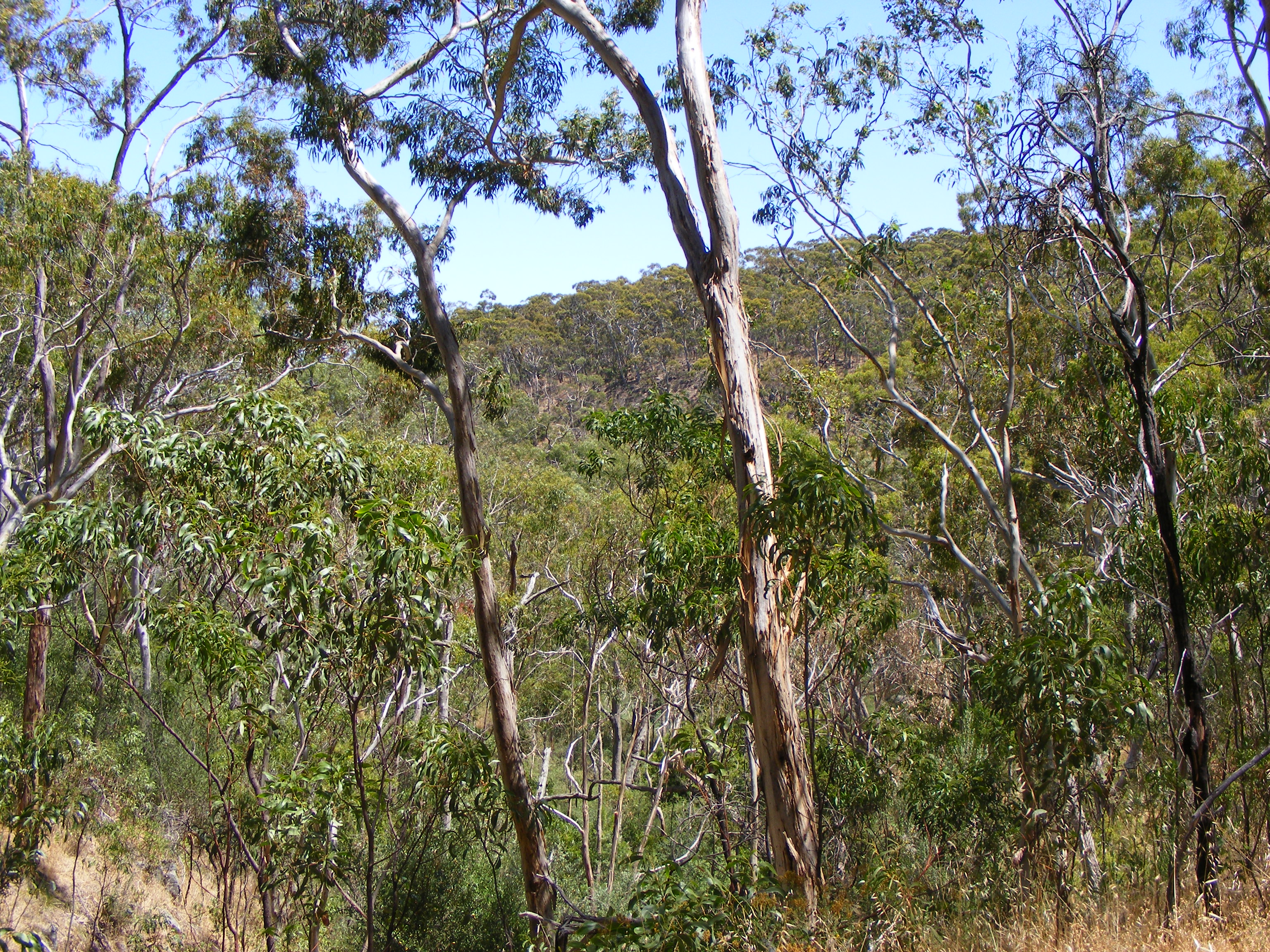 View from near the first waterfall, on the waterfall walk. Belair national park, Adelaide, South Australia